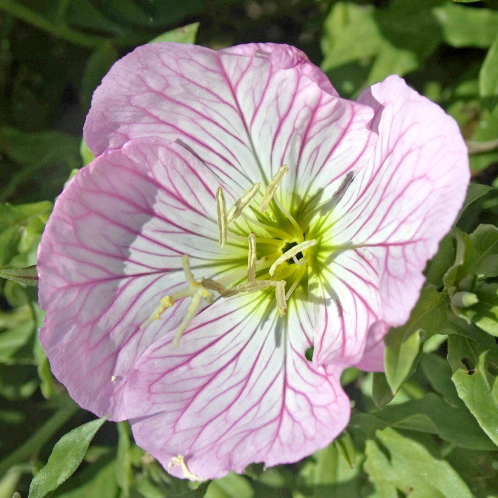 Oenothera speciosa cv Rosea - Szeged Arboretum, Hunagary